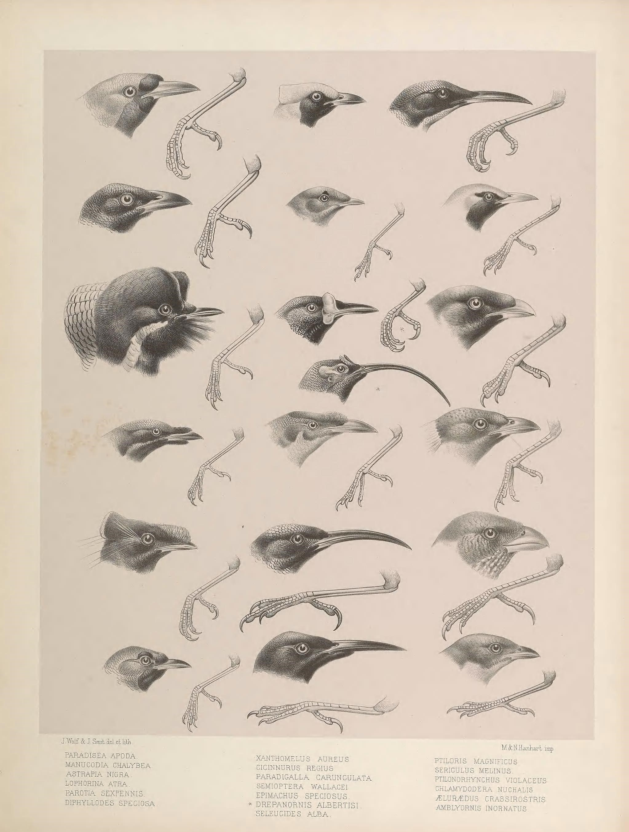 Drawing of 1873 depicting heads and claws of various birds.